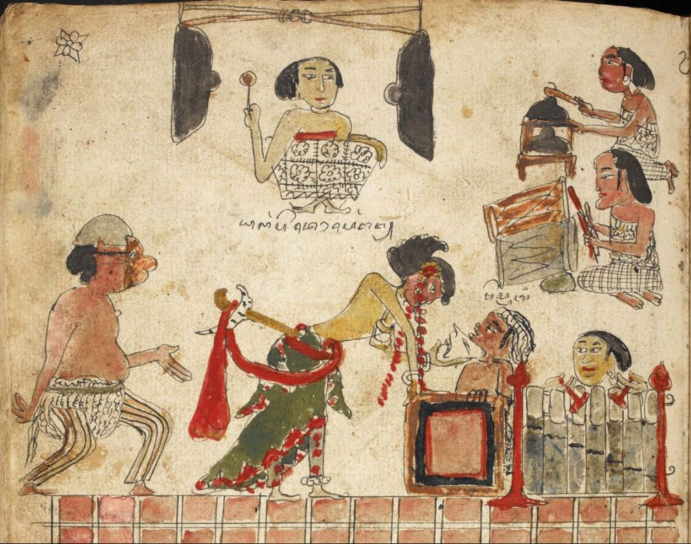 Serat Damar Wulan (MSS Jav 89) one of the most celebrated Javanese manuscripts, has now been fully digitised by the British Library. The Damar Wulan manuscript is fully illustrated, with 153 colour illustrations, showing courtly life, pageantry, warfare and the everyday life of Javanese. Some of the images are en profile in the manner of wayang kulit, but there is also much realistic detail.